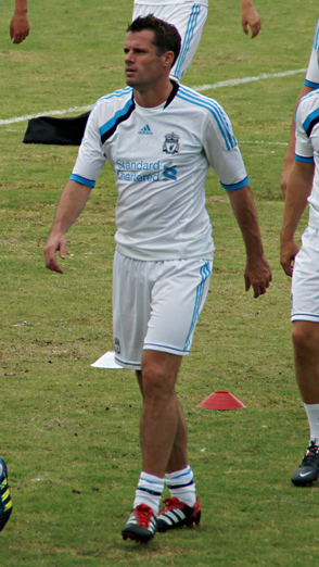 English football player, Jamie Carragher, during Liverpool FC pre-season training in Singapore.